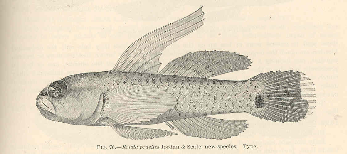 Eviota prasites Jorday & Seale, new species. Type Subject: Eviota Tag: Fish